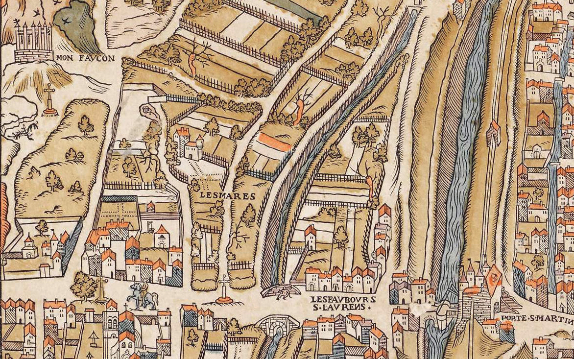 Gibet de Montfaucon on the plan of Truschet and Hoyau (1550).